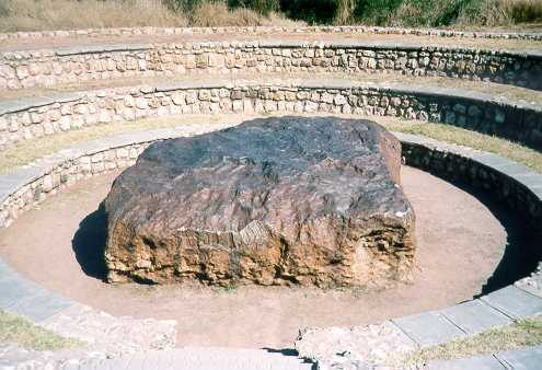 Hoba meteorite